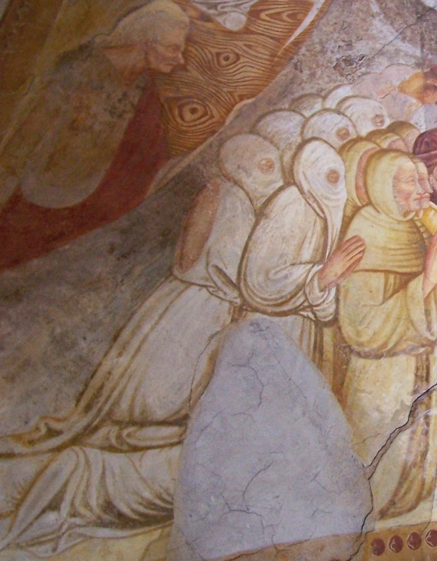 Disciplini, Oratory of the Disciplini, Montecchio, Val Camonica, Italy